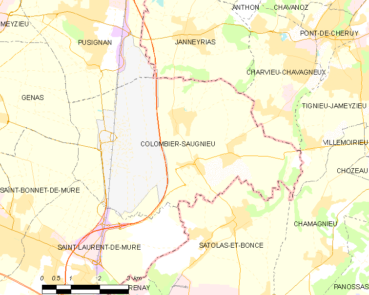 Map of French municipality